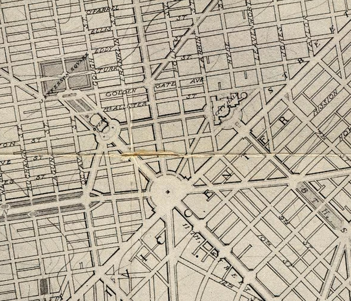 San Francisco: Plan, showing system of highways, public places, parks, park connections, etc. To serve as a guide for the future development of the city. Recommended in his report to the Association for the Improvement and Adornment of San Francisco, by D.H. Burnham.